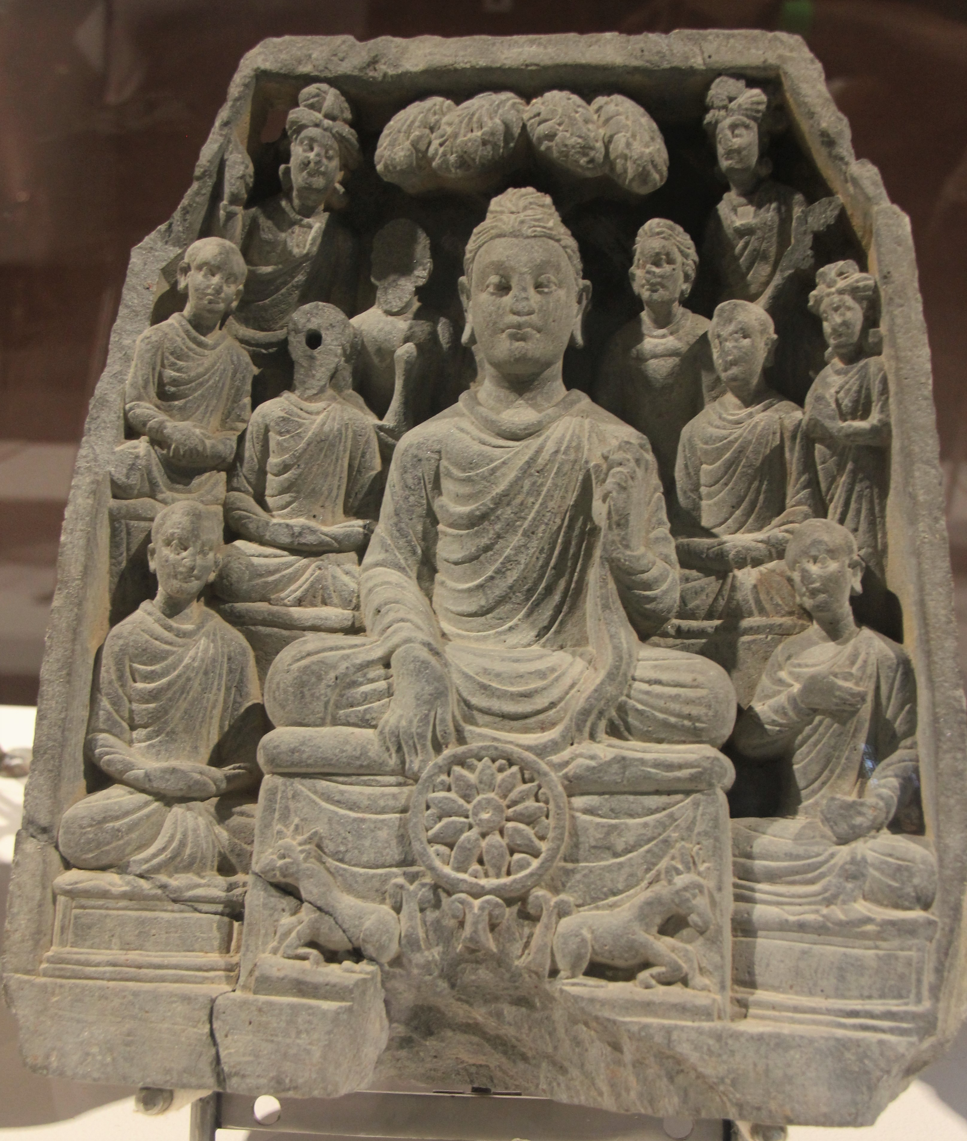 Statue of Gautama Buddha delivering his first sermon in the deer park at Sarnath, Varanasi. He preached the four noble truths, the middle path and Eighfold path. In the statue, he is seated cross-legged (Padmasana i.e. Lotus position) with his right hand turning the Dharmachakra, resting on the Triratna symbol flanked on either side by a deer. He is surrounded by five Bhikkhus (Buddhist monks) with shaven heads. In the background, Vajrapani and other attendants, including probably princes are seen. Statue on display at the Prince of Wales museum in Mumbai.